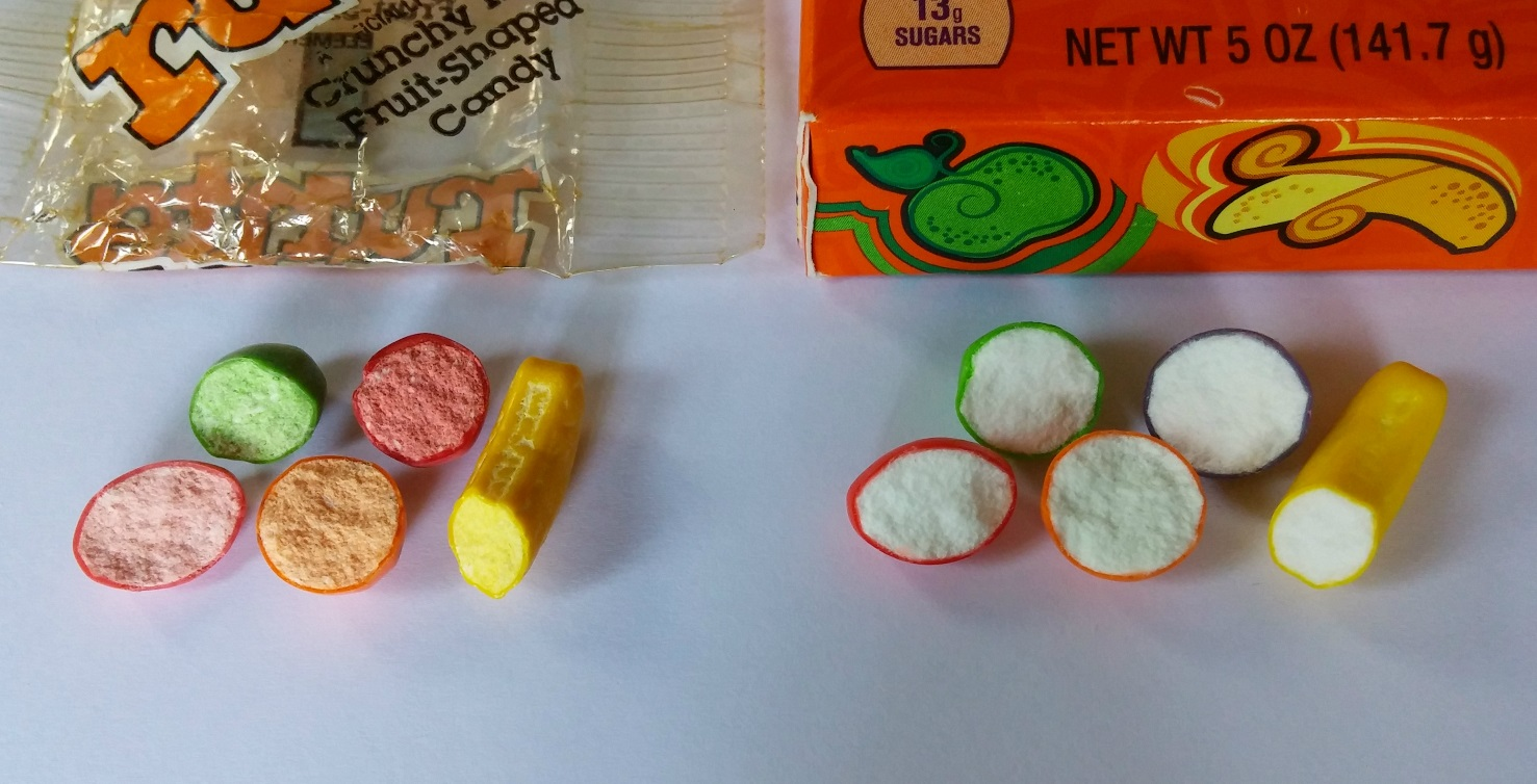 A comparison of the inside of Runts candy. Left: 1982, Right: 2015.